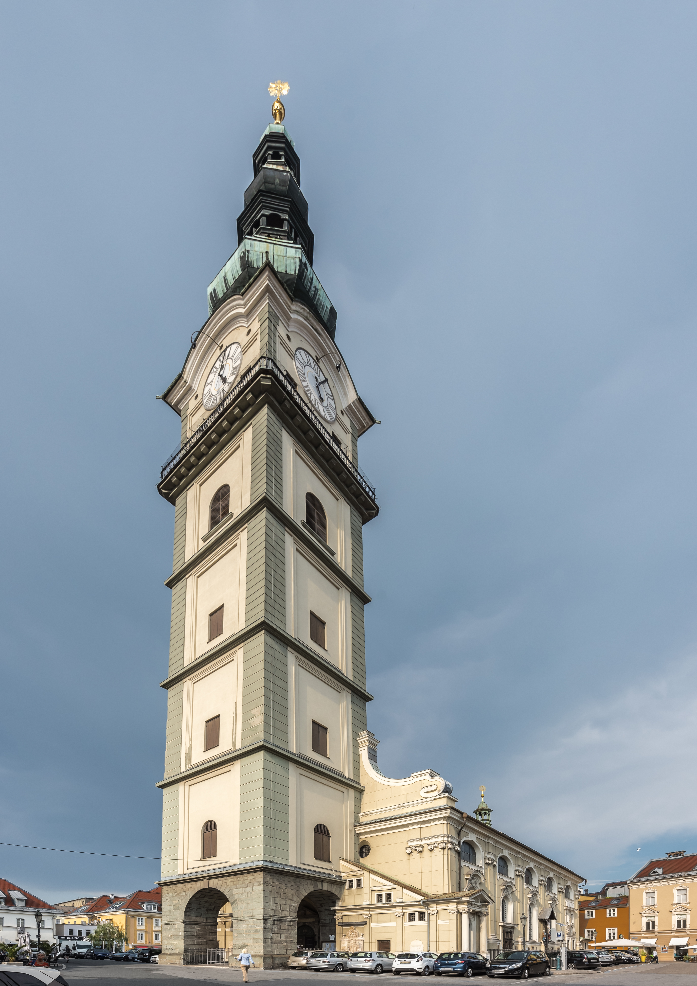 Western view of the bell tower of the city main parish church Saint Giles on Pfarrplatz #7, inner city, Klagenfurt, Carinthia, Austria, EU